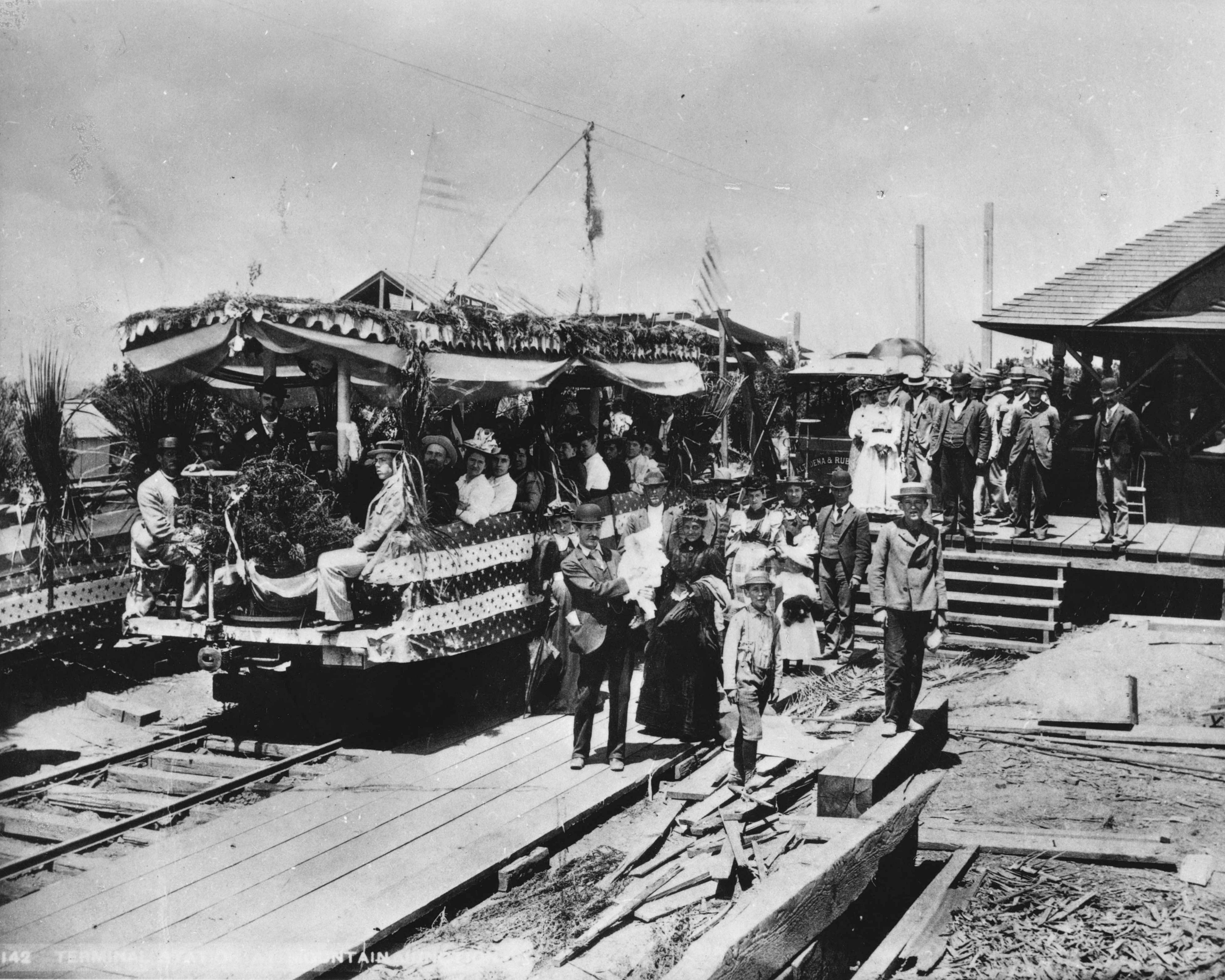 Photograph of the first Mount Lowe Railway car to leave Altadena for Rubio Canyon, July 4, 1893. A large group of finely-dressed people gather on the railroad platform looking towards the foreground. Many stand on the raised, wooden platform at right while others sit on a decorated railroad car at center. Two small boys stand on broken shards of wood in the foreground while flags wave in the background.